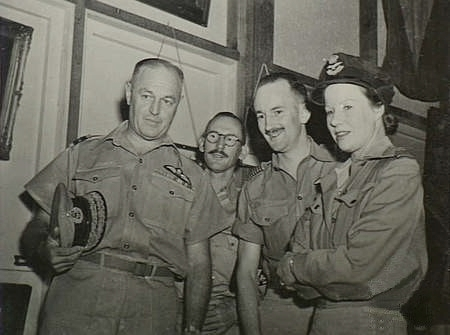 Townsville, Qld. Informal group portrait of, left to right: Air Commodore J. H. Summers, OBE, Air Officer Commanding North Eastern Area; Flight Lieutenant D. K. Peacock; Group Captain I. S. Podger DFC; Squadron Officer M. F. Miller, Staff Officer WAAAF.